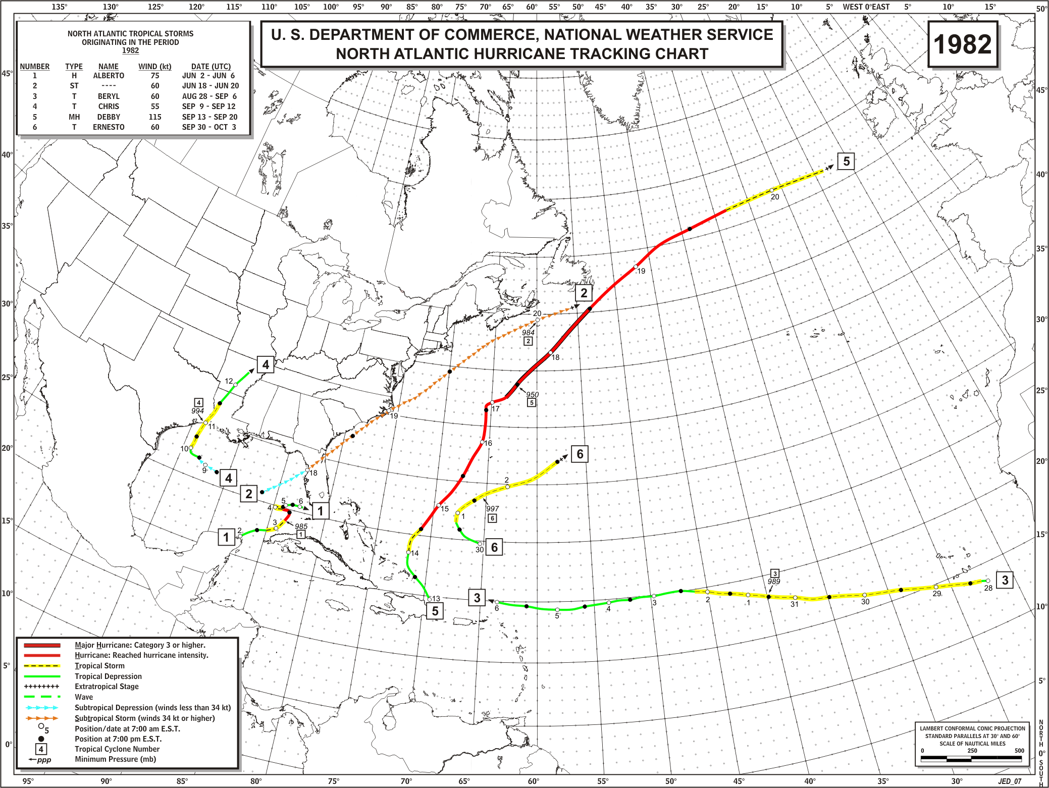 Season summary provided by NOAA of the 1982 Atlantic hurricane season.